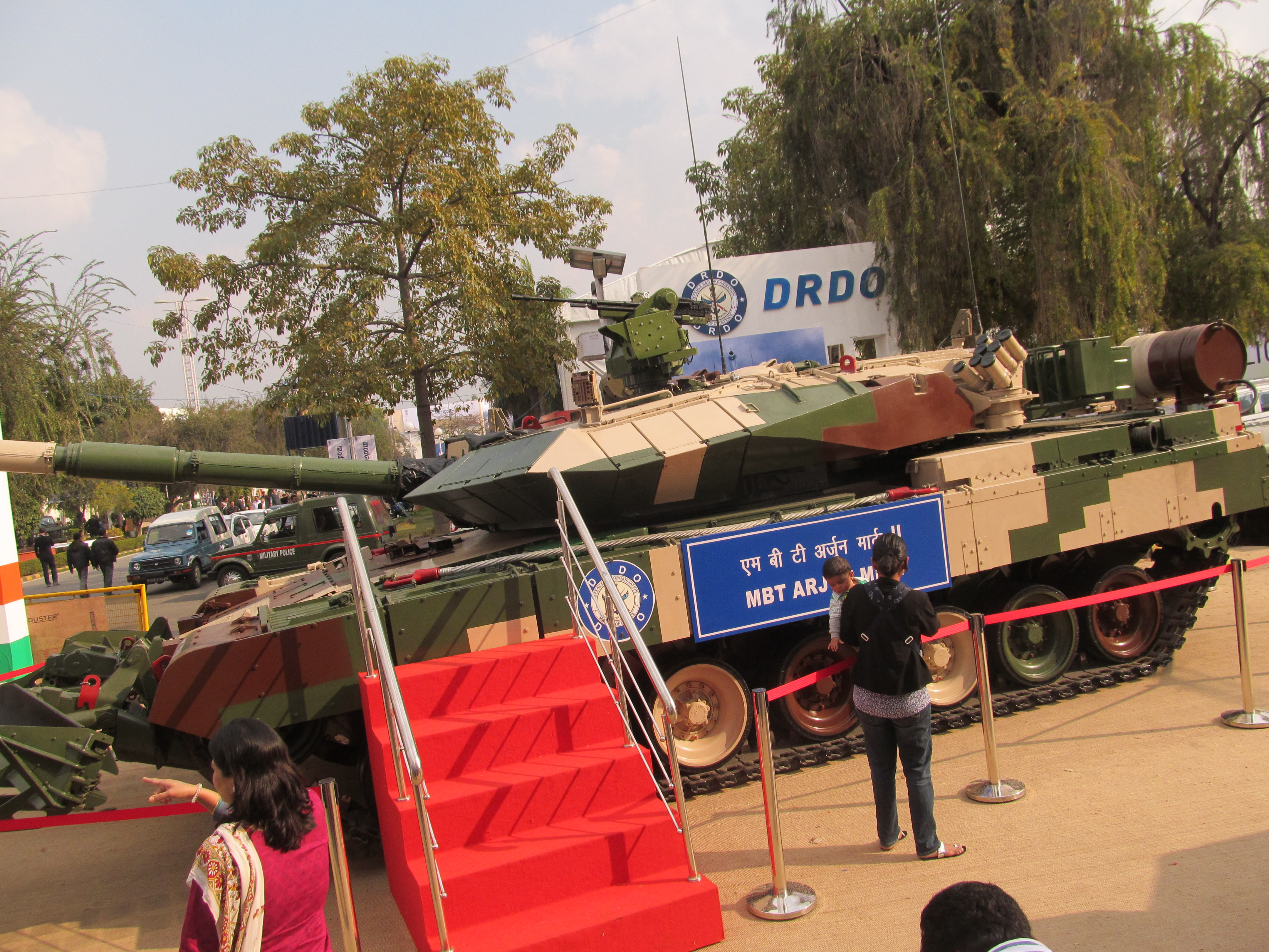 Arjun Mk II side view, during DefExpo 2014, New Delhi.